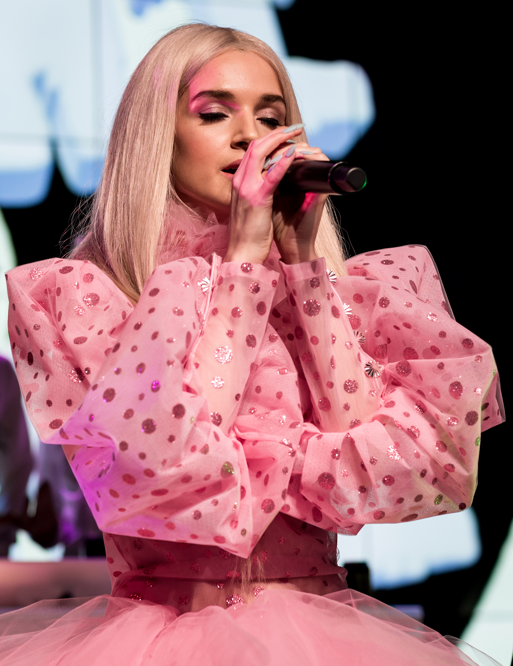 Poppy (That Poppy) performing live at YouTube Space LA in Playa Vista, Los Angeles, California, on Friday, October 6, 2017. This was short performance to promote her Poppy.Computer world tour.